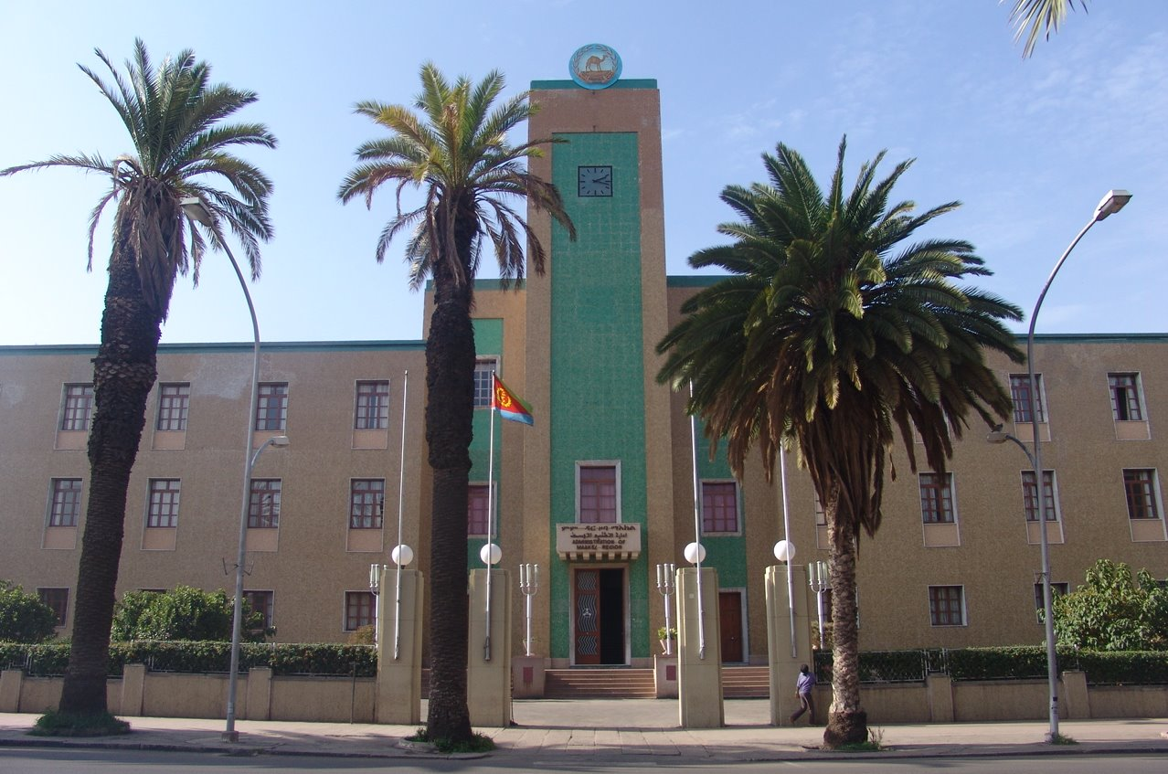 Building of a regional administration Asmara, Eritrea. Image taken by Charles Fred on flickr. The creator has granted GFDL licensing and permission for use in the wikimedia project.